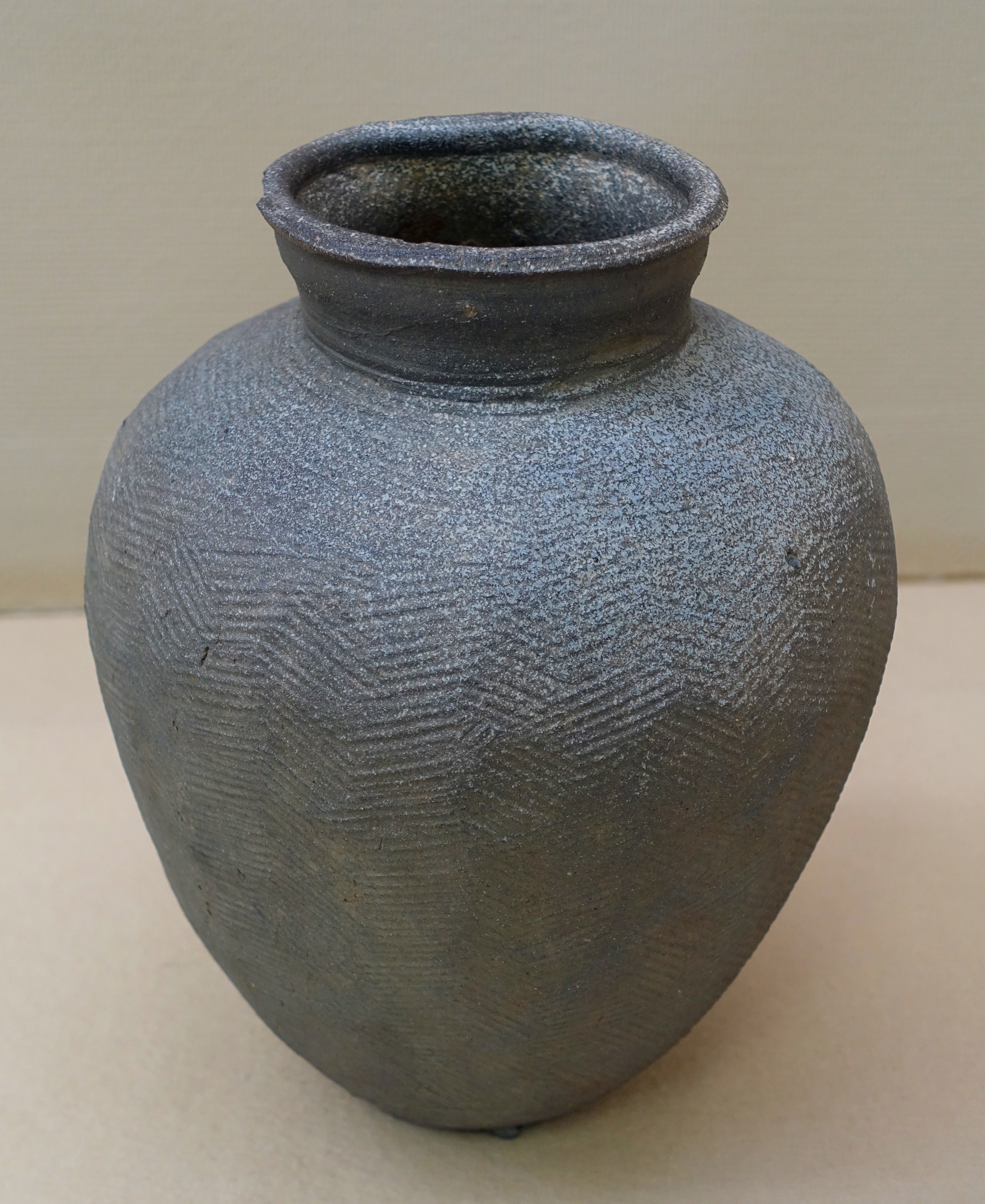 Exhibit in the Hakone Museum of Art - Hakone, Kanagawa, Japan.